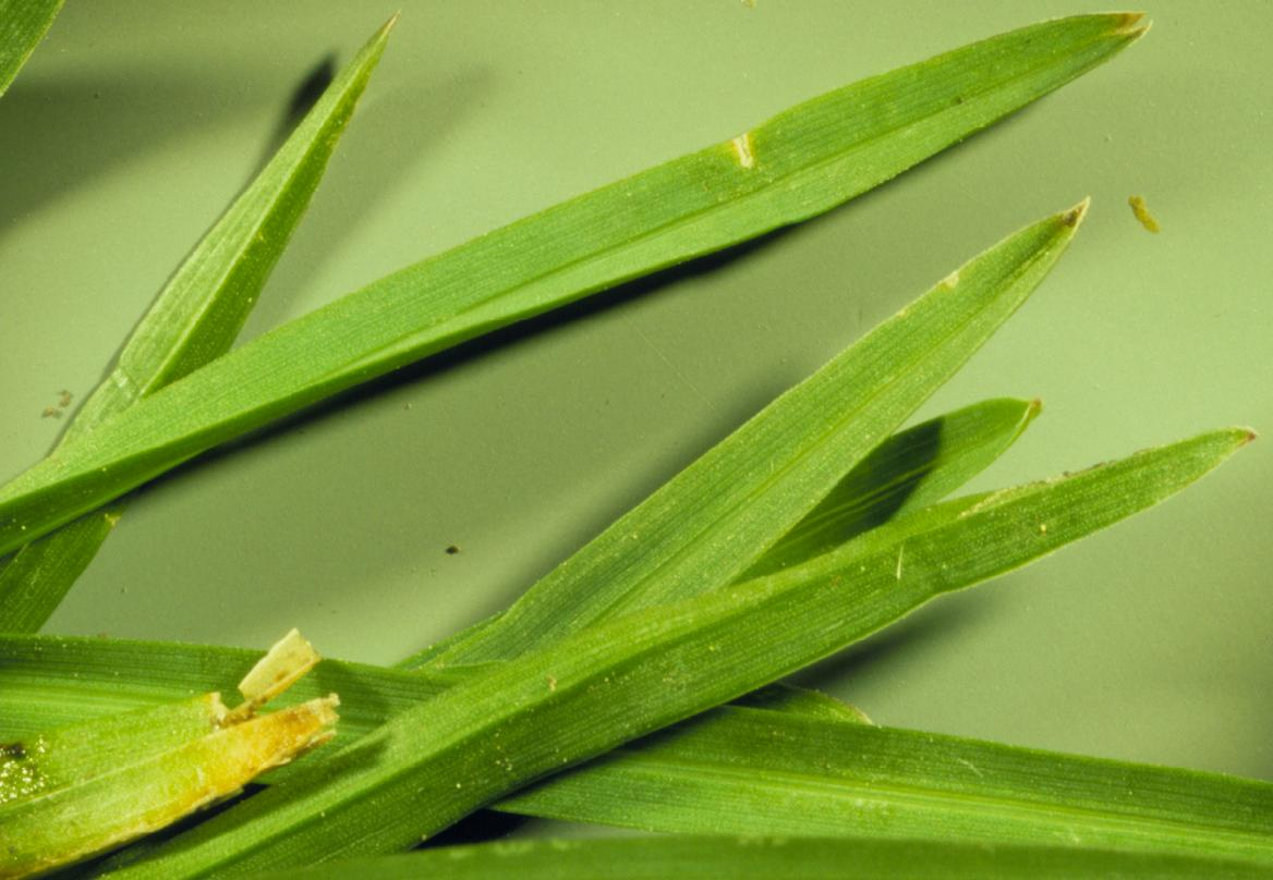 The leaf blades of Poa species have a distinct double midrib (railroad tracks) on the inside or two rows of cells that mediate the folding of the blade. The prow tip of the leaf blade, also distinctive of Poa, accommodates the folding-in-half of the leaf blade.